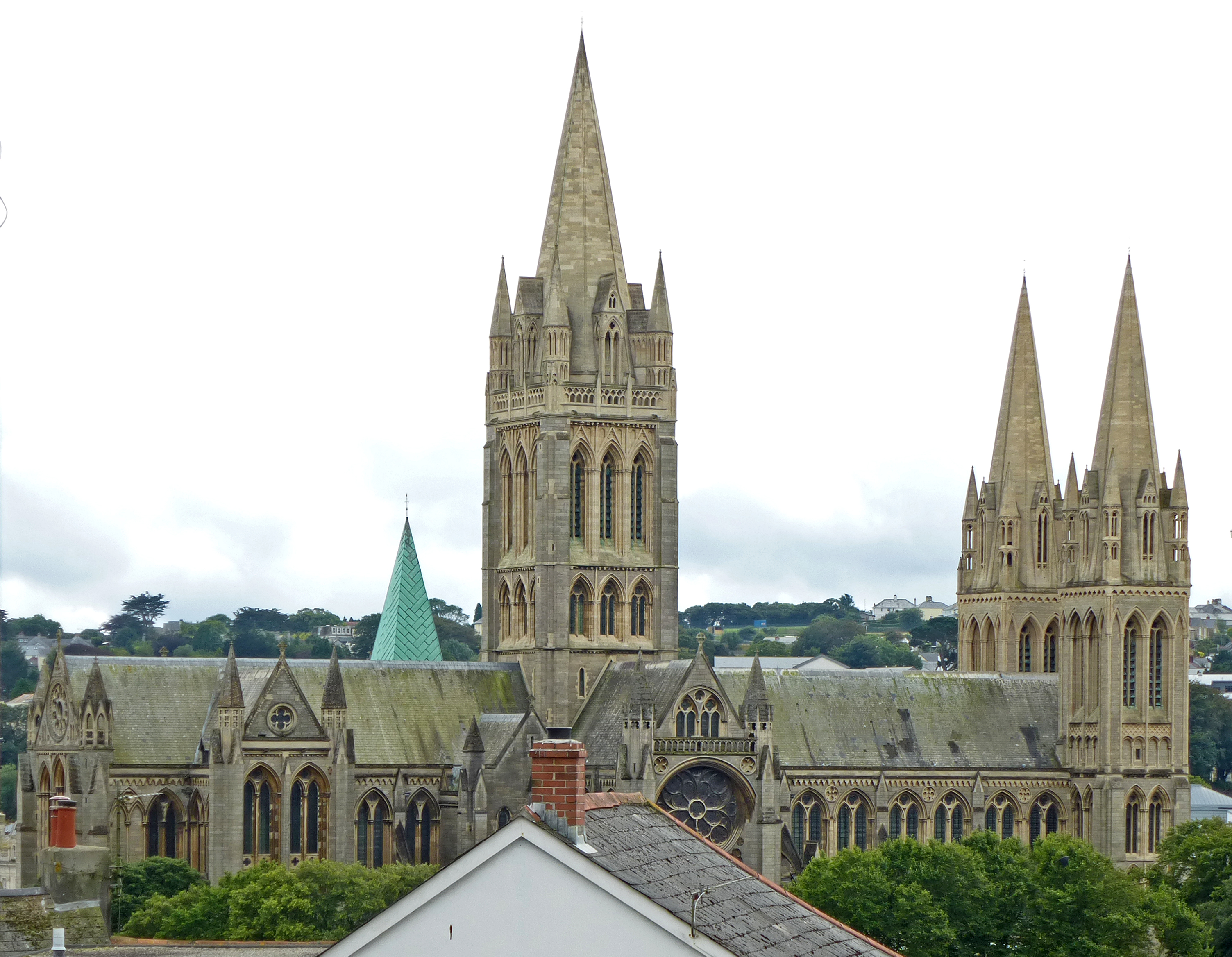 Truro Cathedral, Truro, Cornwall. Taken by Flickr user:Tim Green aka atouch on Thursday the 15th of August 2013.